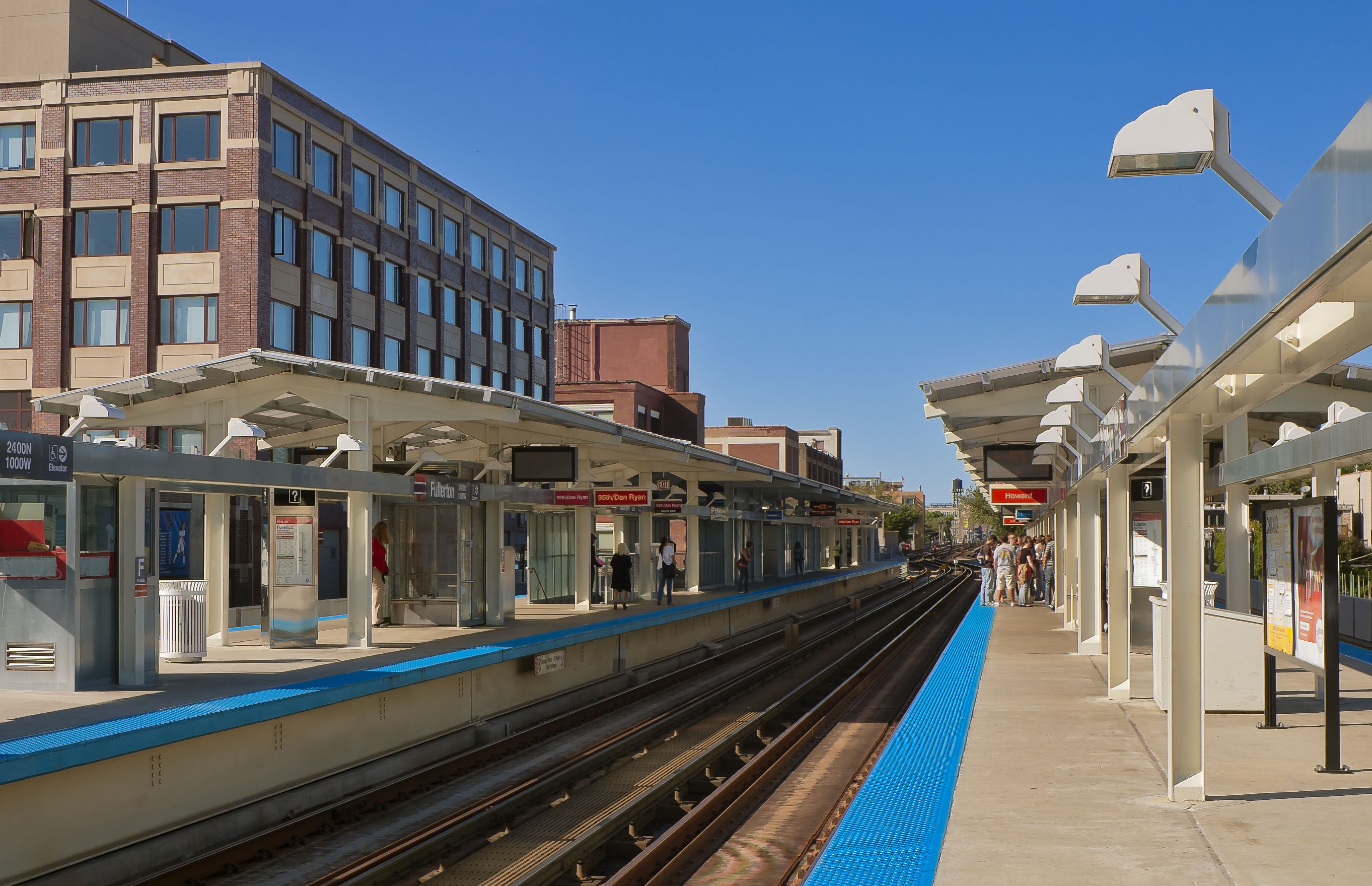 Fullerton 'L' station on the CTA Red, Brown, and Purple lines in Chicago, Illinois.